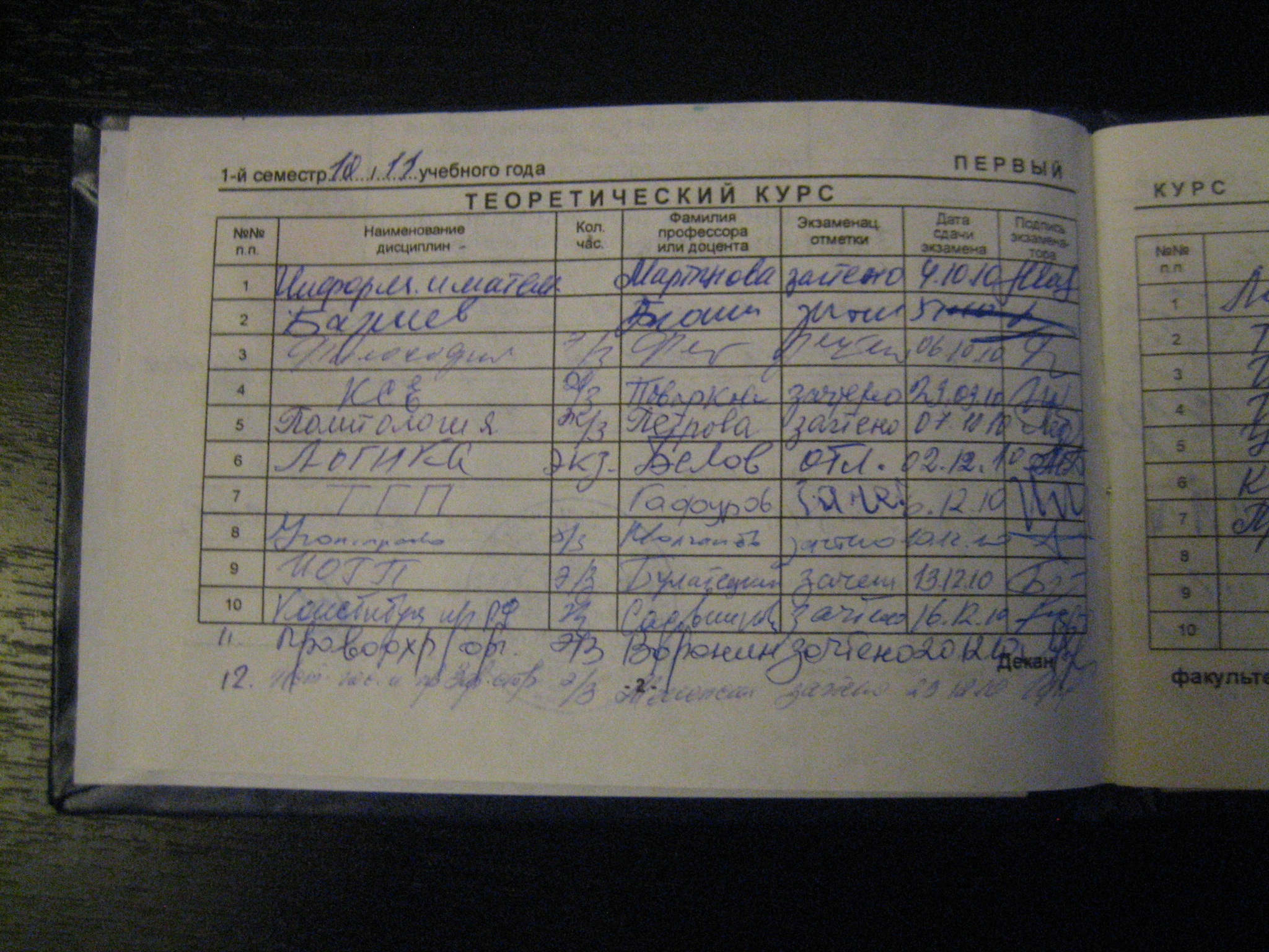 Transcript (education)